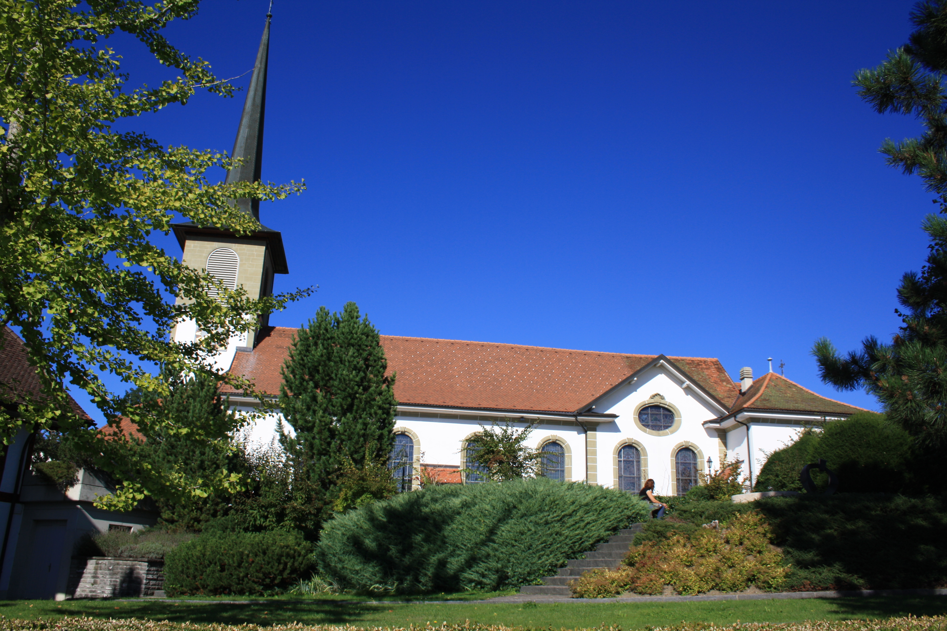 The roman-catholic church of Giffers, Canton of Fribourg, Switzerland